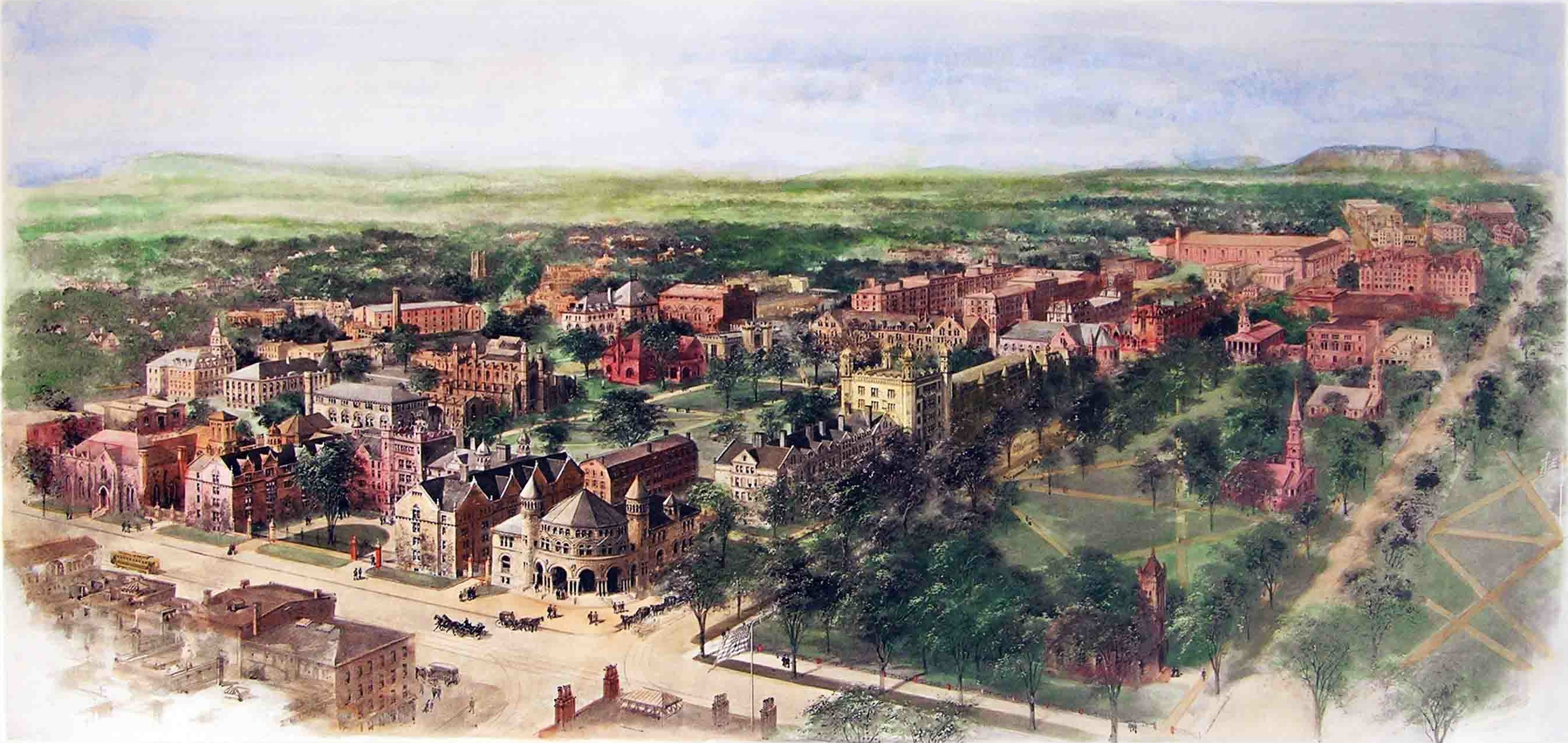 Cropped version of Richard Rummell's 1906 watercolor of Yale University